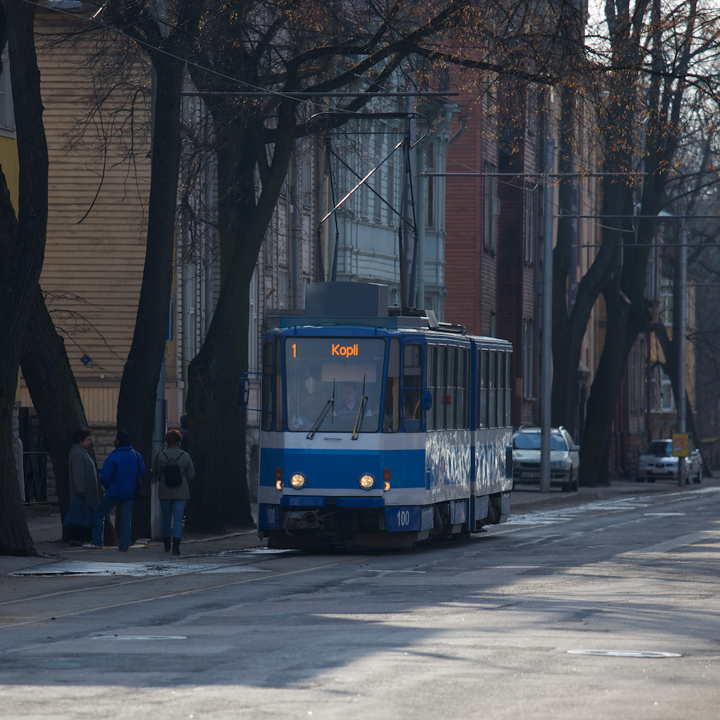 Tram nr. 1 in Kadriorg, Tallinn